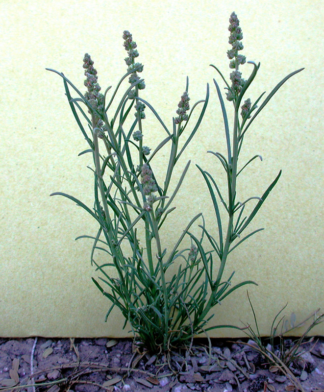 Oligomeris linifolia from near Robbins Butte, Maricopa County, Arizona, USA. Specimen is about 15 cm tall.